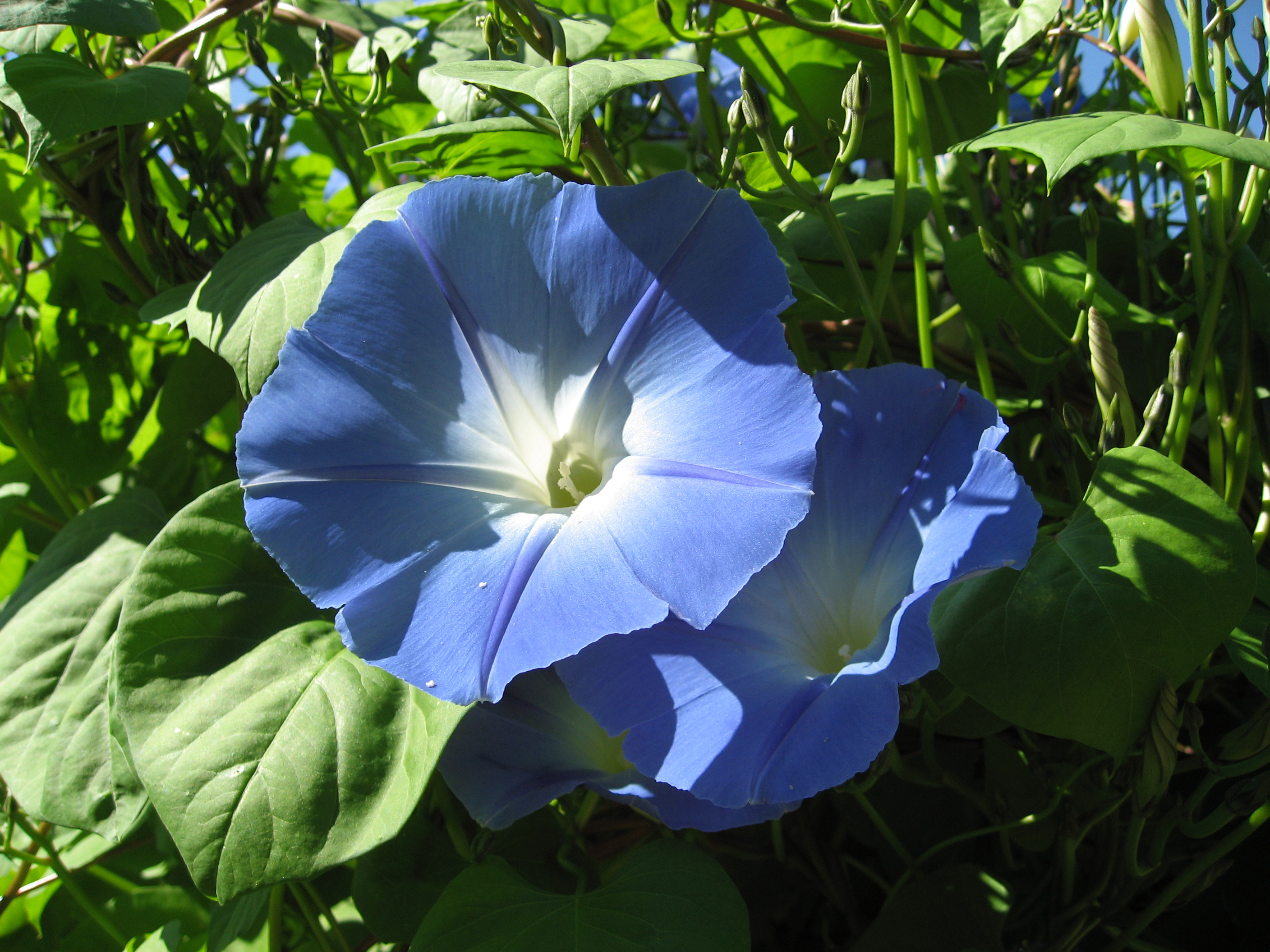 Ipomoea tricolor heike 4